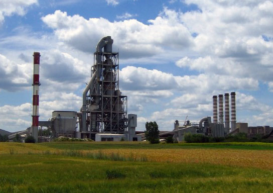 Cement plant in Chełm